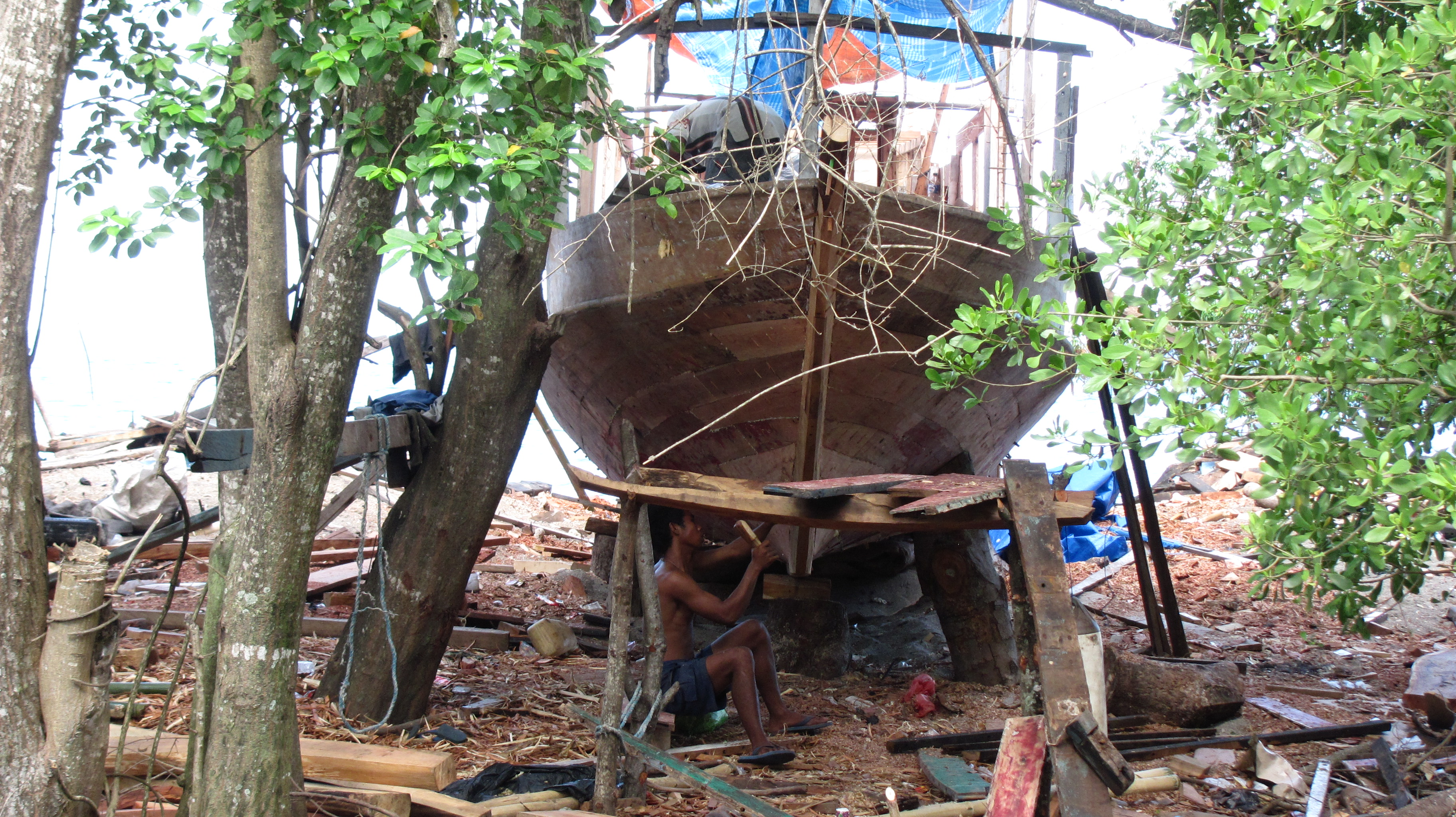 Traditional shipbuilding, Labuan Aji, Moyo Island, Indonesia